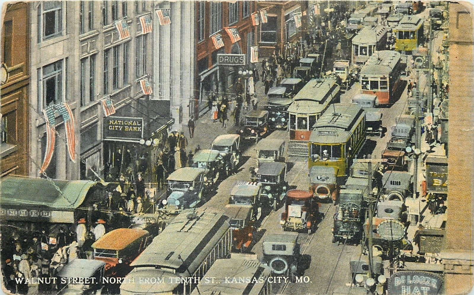 Colorized postcard of streetcars in congested traffic on Walnut Street in Kansas City, looking north from 10th Street. Original caption: “Walnut Street, north from Tenth Street Kansas City. View of one of the principal business thoroughfares of Kansas City. This one block contains eleven banks. Kansas City ranks fourth in bank clearings.”